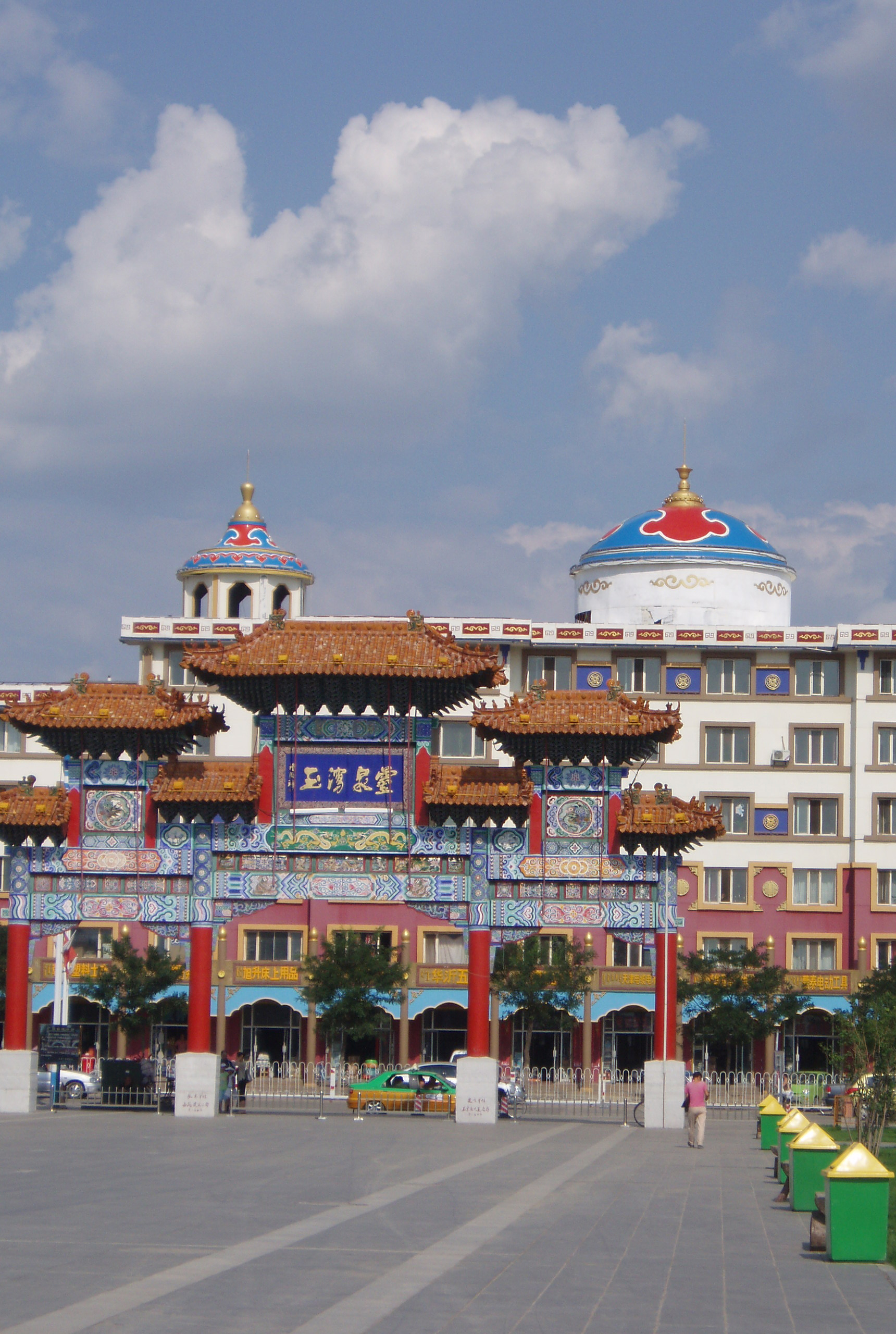 A market in Hohhot, Inner Mongolia, China